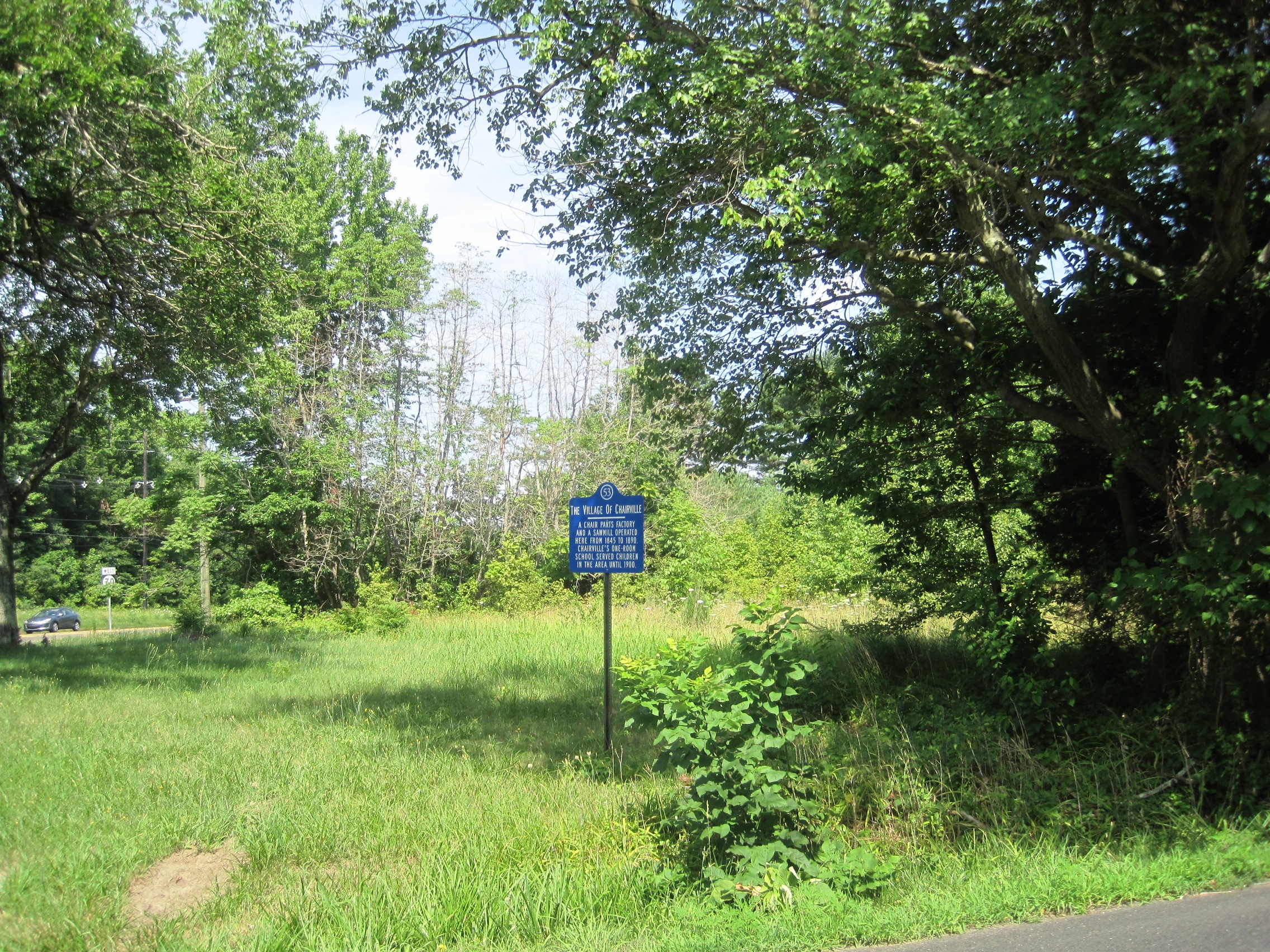 Photo of a historical marker noting the site of Chairville, New Jersey, an unincorporated community within Medford Township. Photo taken from Chairville Road just north of its intersection with New Jersey Route 70.